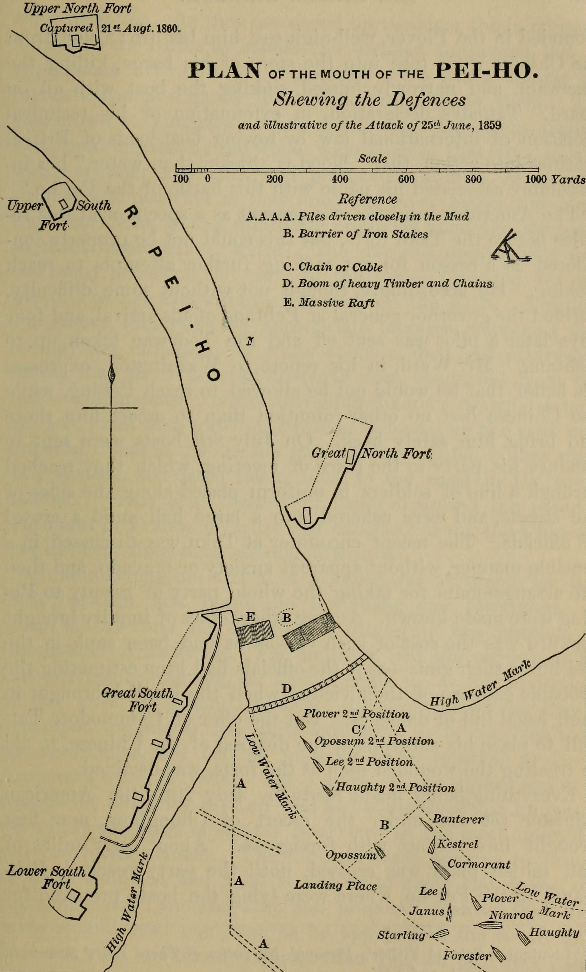 Plan of the mouth of the Peiho River, showing the attack on 25 June 1859.